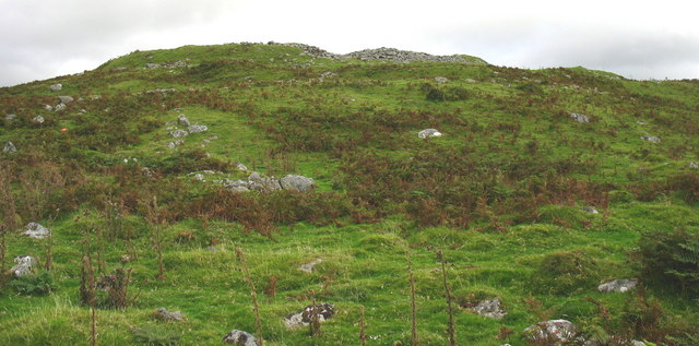 Pen y Dinas hillfort from the west This photo shows the impressive gate to the fort (top centre) and, below it, the additional rampart built on a base of boulders to provide further protection for the gate. The site also has a number of Medieval farming settlements.